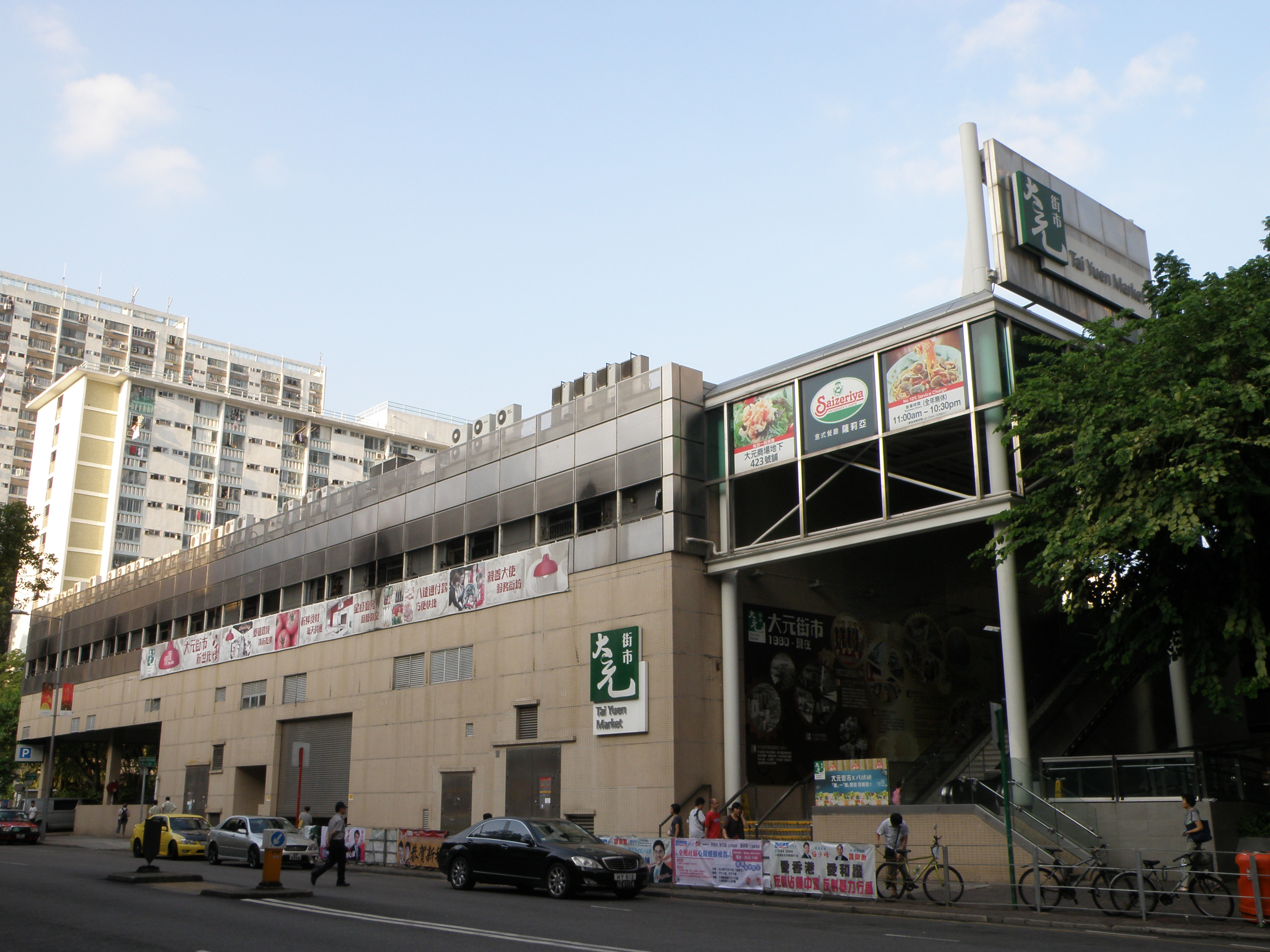 Tai Yuen Market in Tai Po, Hong Kong.